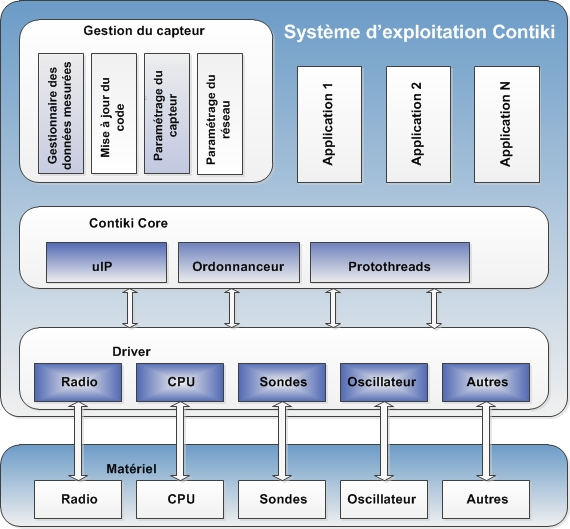 Contiki Architecture